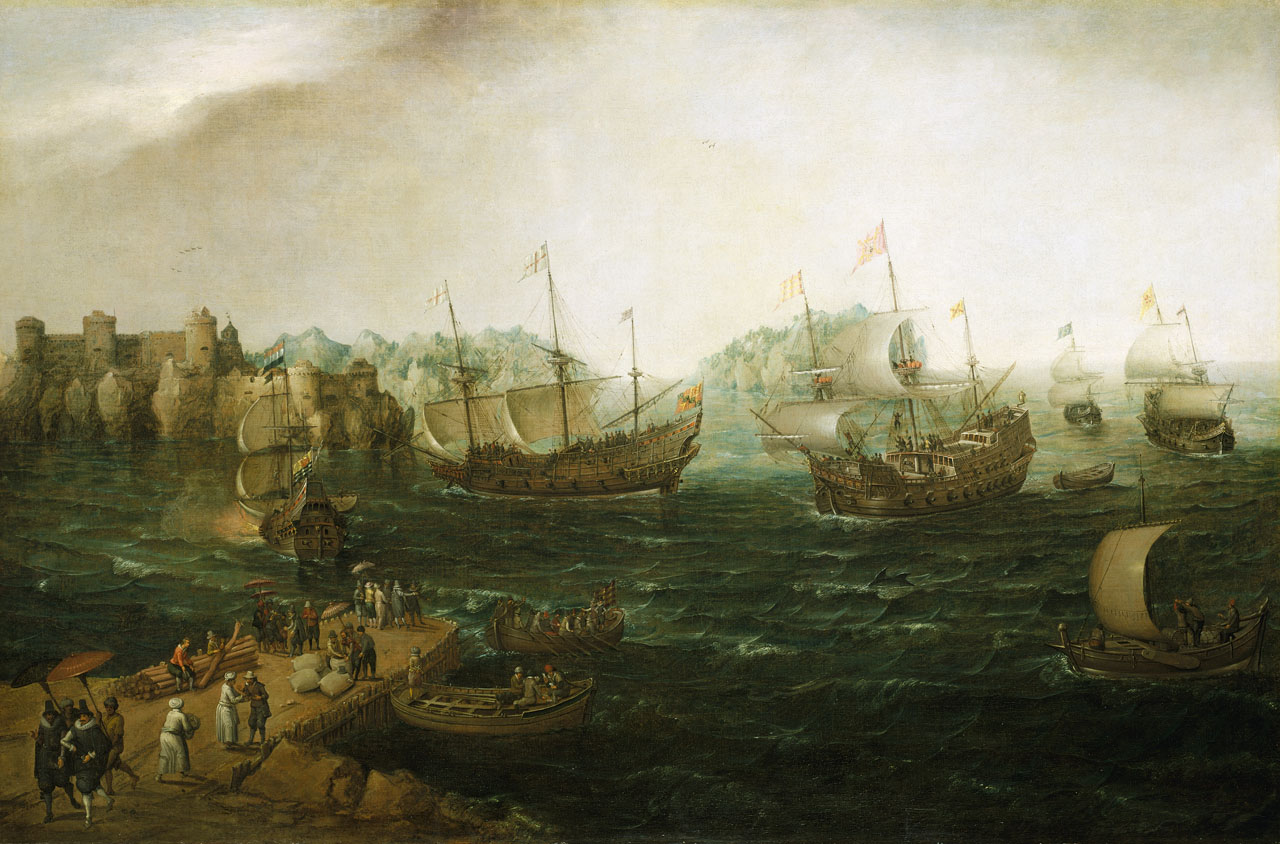 Ships bearing the flags of the Dutch, the English and the Spanish in a bay, believed to be in the East Indies.